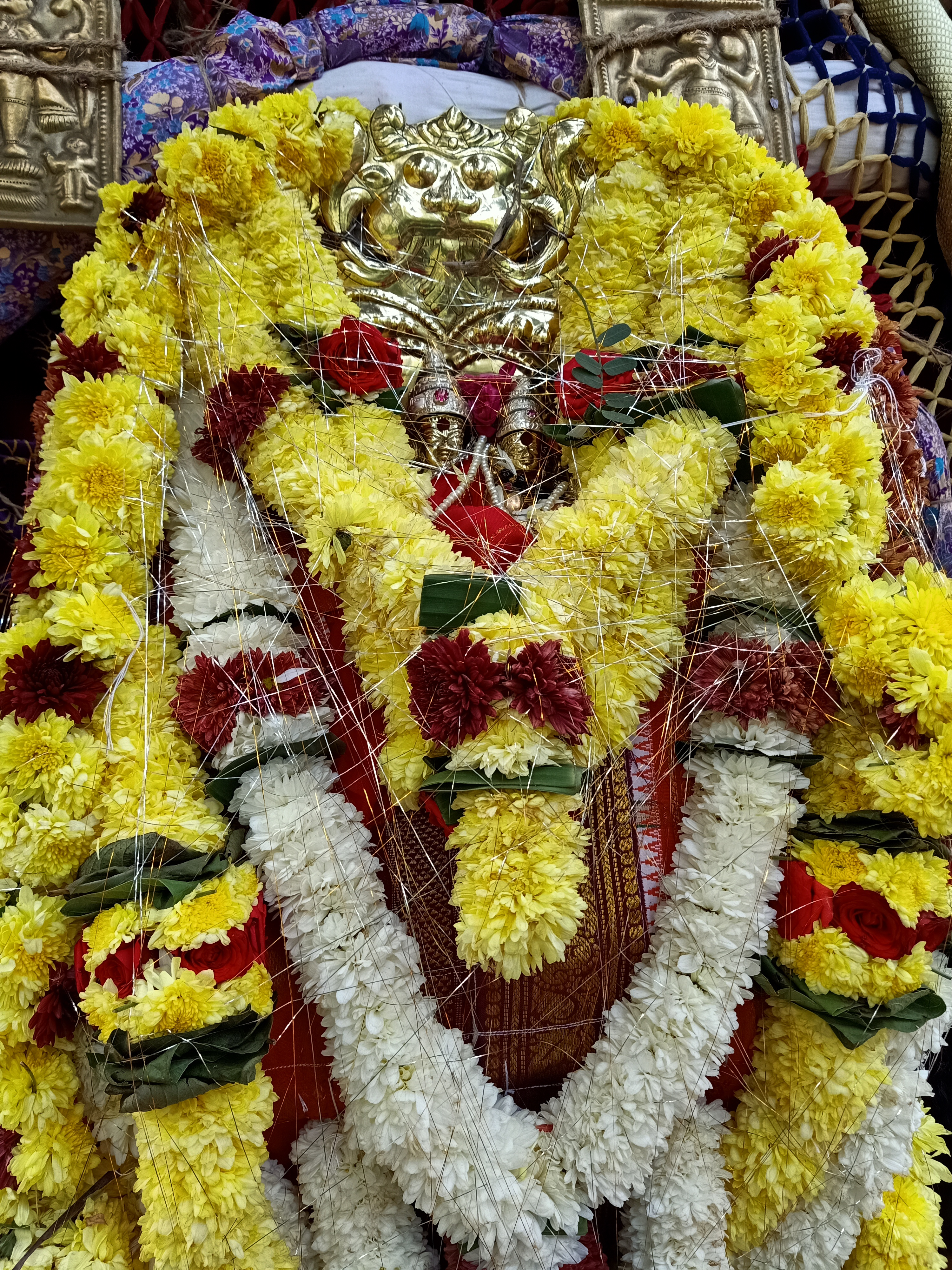 A prabha is a wooden object decorated with colorful clothes and other regional souvenirs to set up that region's worshipped god, decorated by locals.The tradition of prabhalateertham is being followed since 17th century in East Godavari district of Andhra Pradesh, where people from 11 nearby villages gather, each village people representing their local worshipped god(Lord Shiva), on prabha,carrying them through the farm lands by foot to a farm land named as jagganna thota, and celebrate the 3rd day of Sankranthi festival. People from all over the country visit this event and take the blessings of all 11 gods of all villages and celebrate the event with families. This photo has been taken in the country: India